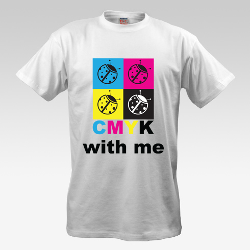 LadyBird